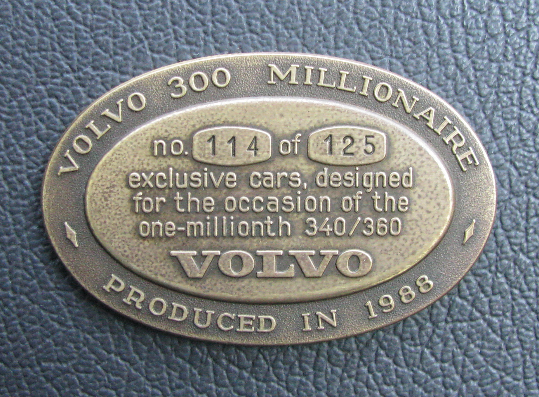 Volvo 340 GLE Millionaire. This is the badge that's on the dashboard of this special model. Each car got it's own unique number, this is 114 of 125 ones for the Netherlands.